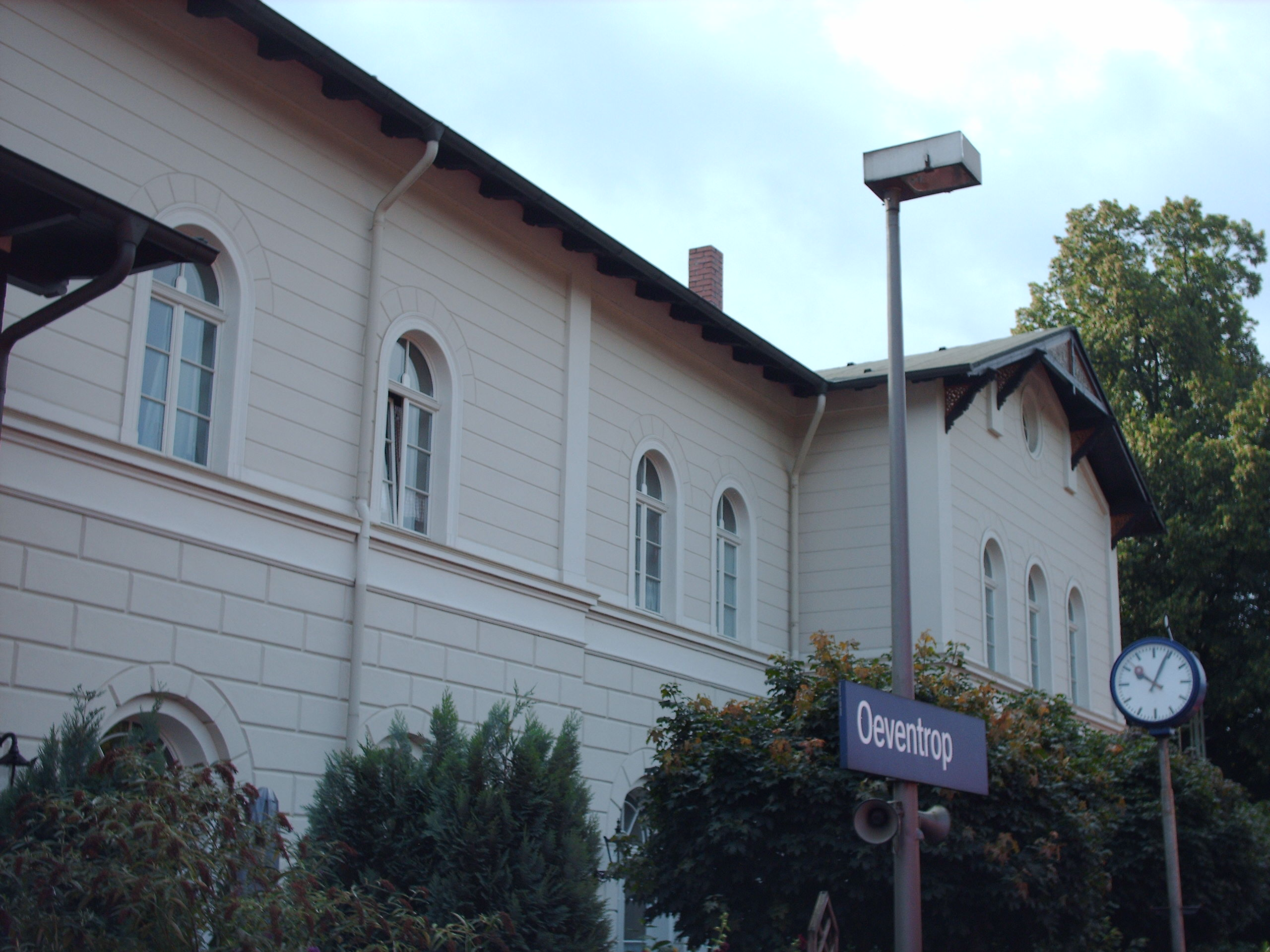 Oeventrop station, Arnsberg, Germany check usage